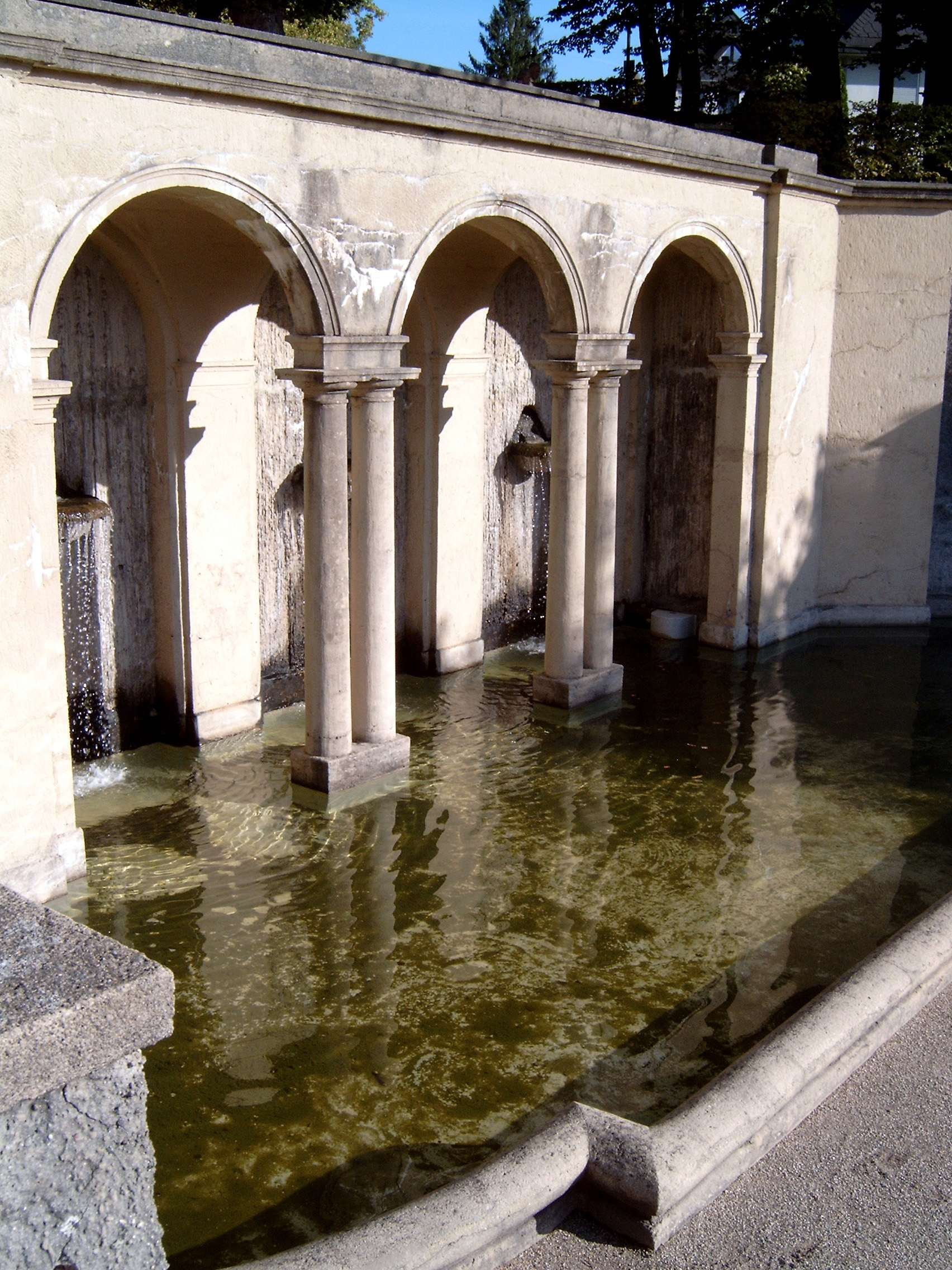 Paradies in Baden-Baden